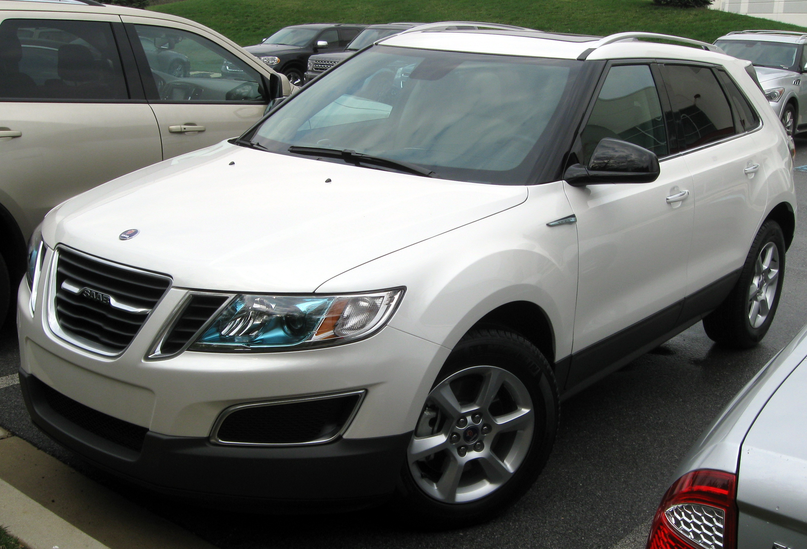 2012 Saab 9-4X photographed in Upper Marlboro, Maryland, USA.